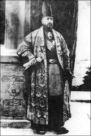 ascribed to Amir Kabir, Prime Minister of Persia (Iran). There is no evidence for origin and truthfully of this photo.